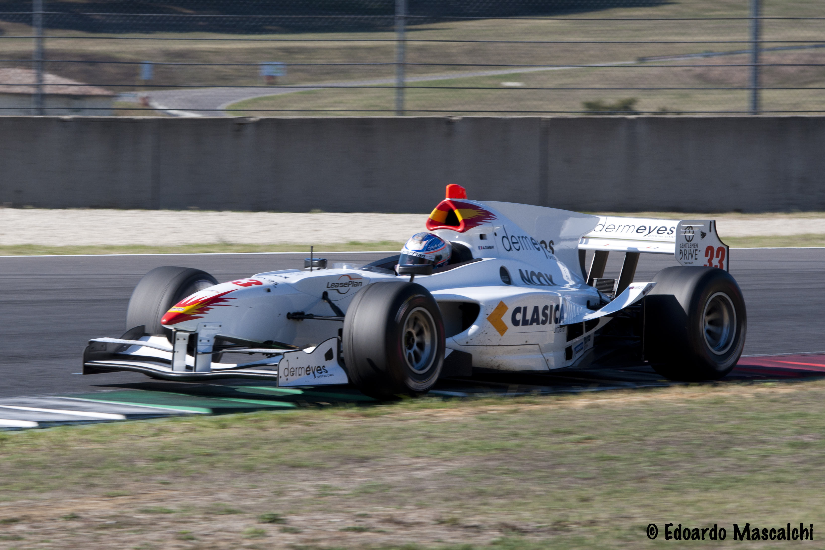 Adrien Tambay driving the car of Auto GP (Lola B05/52) at Autodromo Internazionale del Mugello